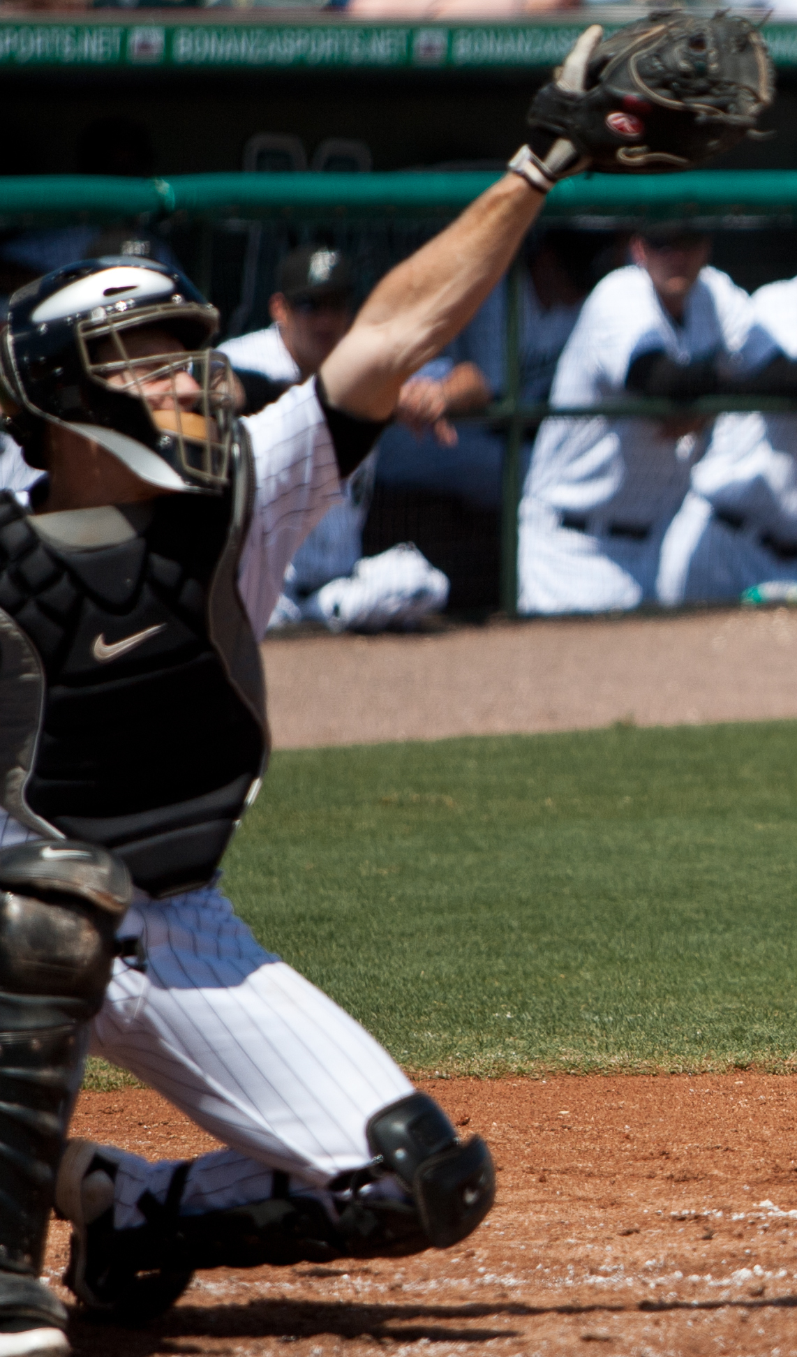 Danny Espinosa of the Washington Nationals is hit in the helmet by a pitch during a spring training game in 2011.